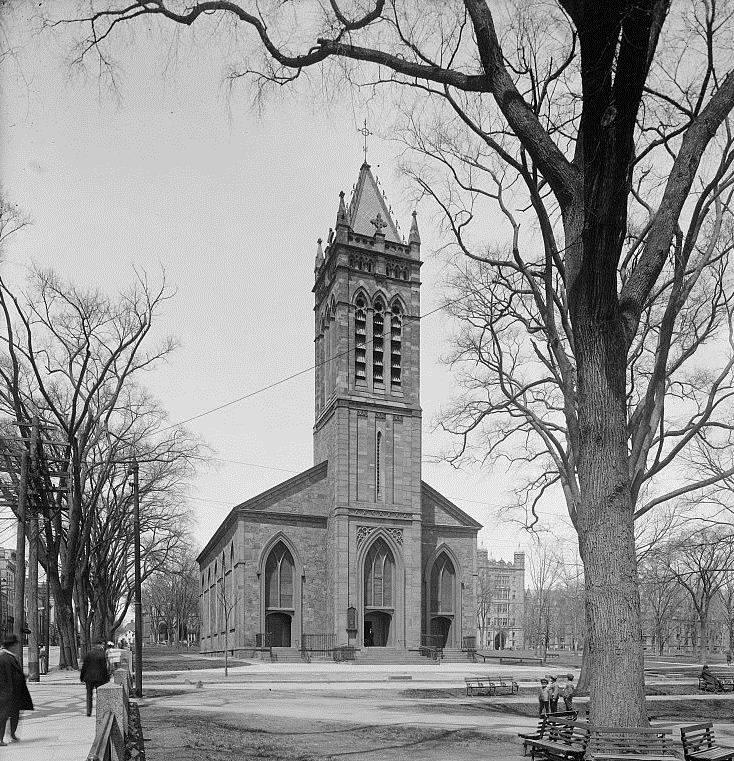 Trinity Episcopal Church, the Green, New Haven, Connecticut, cropped